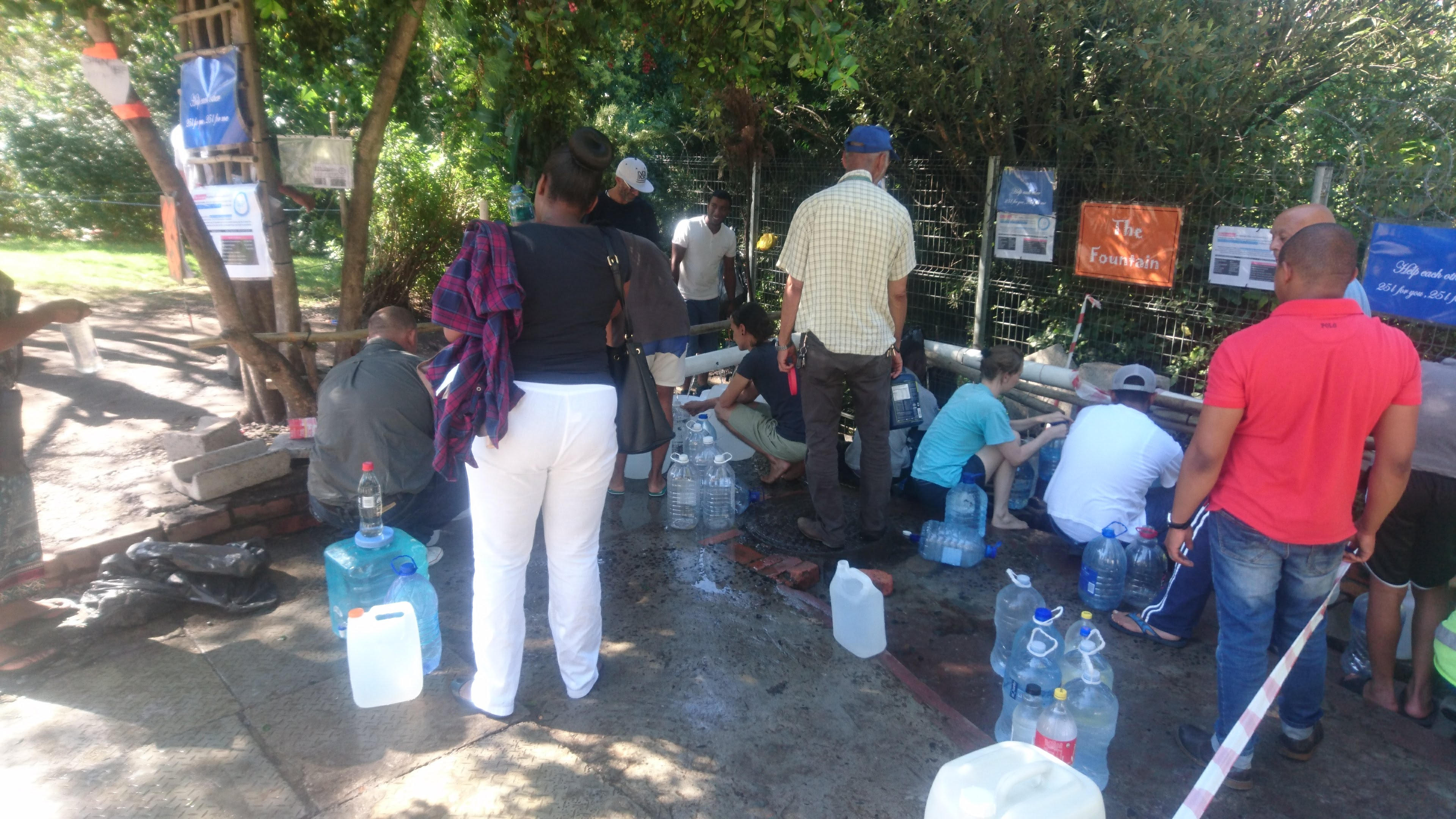 A line in front of the Newlands Spring on Springs Way, Newlands, Cape Town during the Cape Town Water Crisis. Water collected from the springs is regarded as being of exceptionally high quality and people from across Cape Town have chosen to collect water from it for personal consumption for over a hundred years. Photographs of people lining up at the springs in Newlands were published during media coverage of the water crisis creating a false impression that people were forced to line up for water due to water cuts. At the time of this photograph no water cuts had taken place in Cape Town due to the drought. The photograph was taken prior to the Spring at Springs Way being sealed off by the municipality.